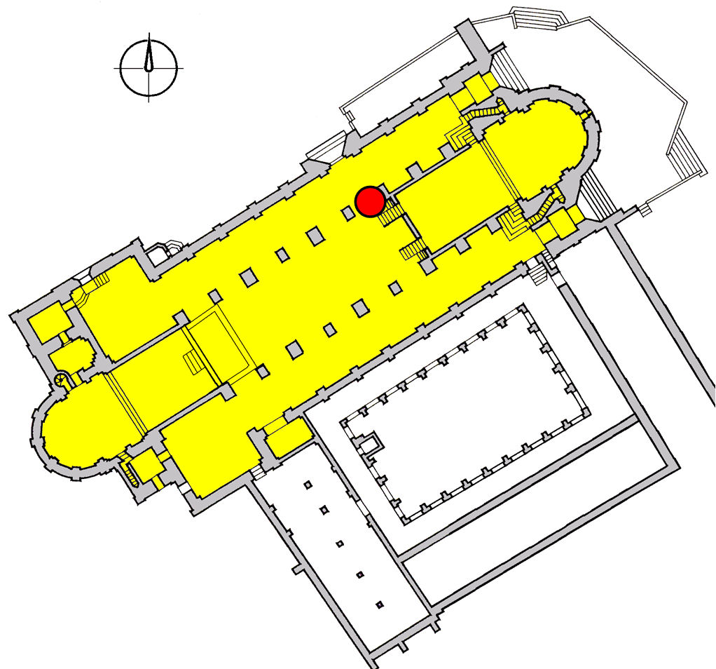 cathedral of Bamberg, Germany